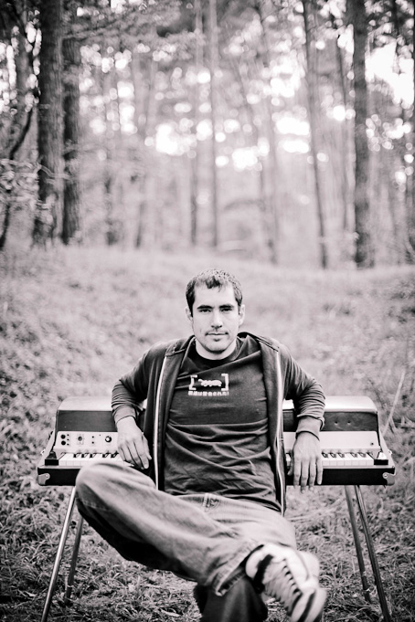 Pianist Ulf Kleiner & his Fender Rhodes